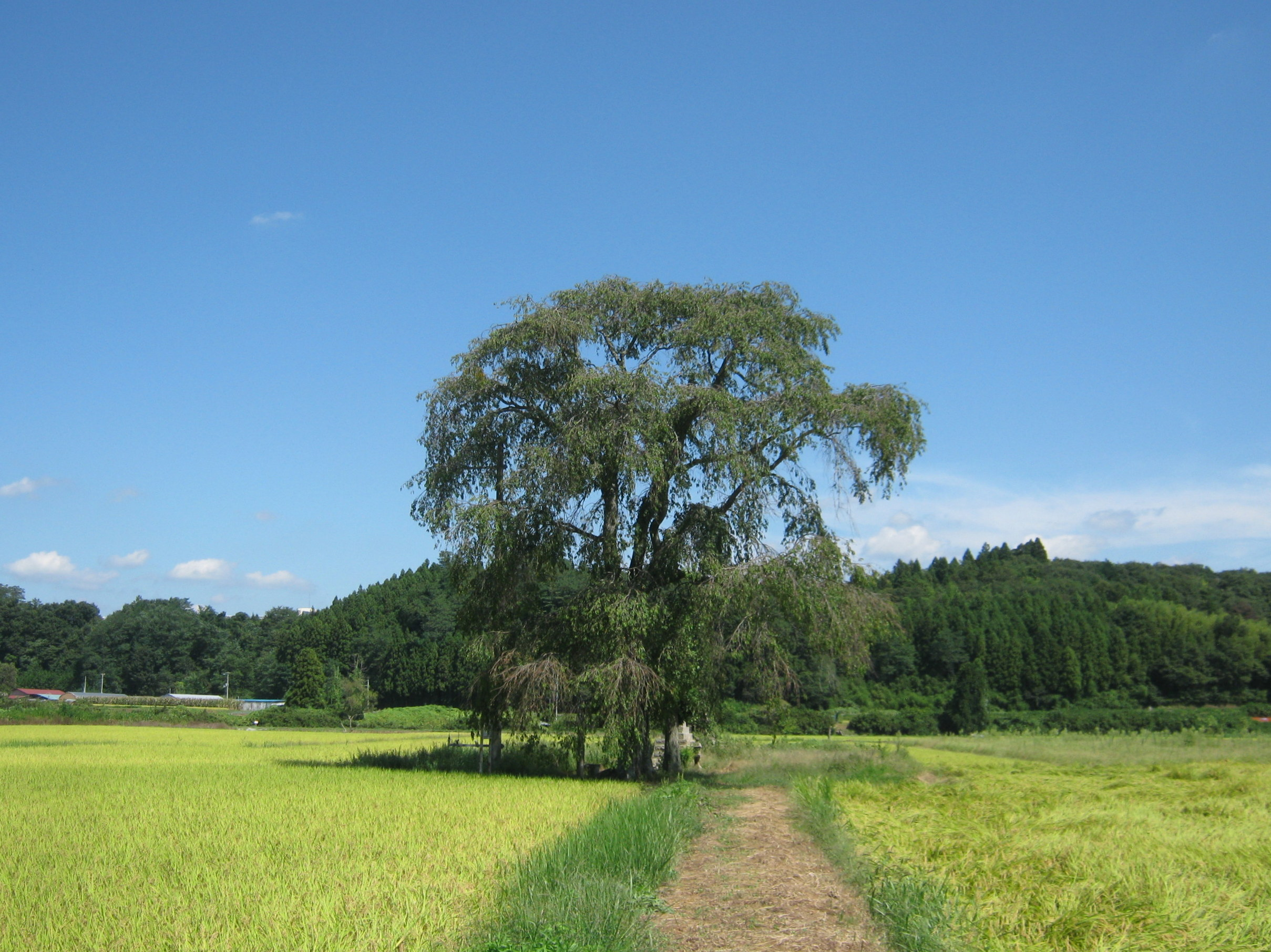 Yanaka-no-Oenoki is a grand Celtis sinensis tree in Yabuki, Fukushima Prefecture, Japan.